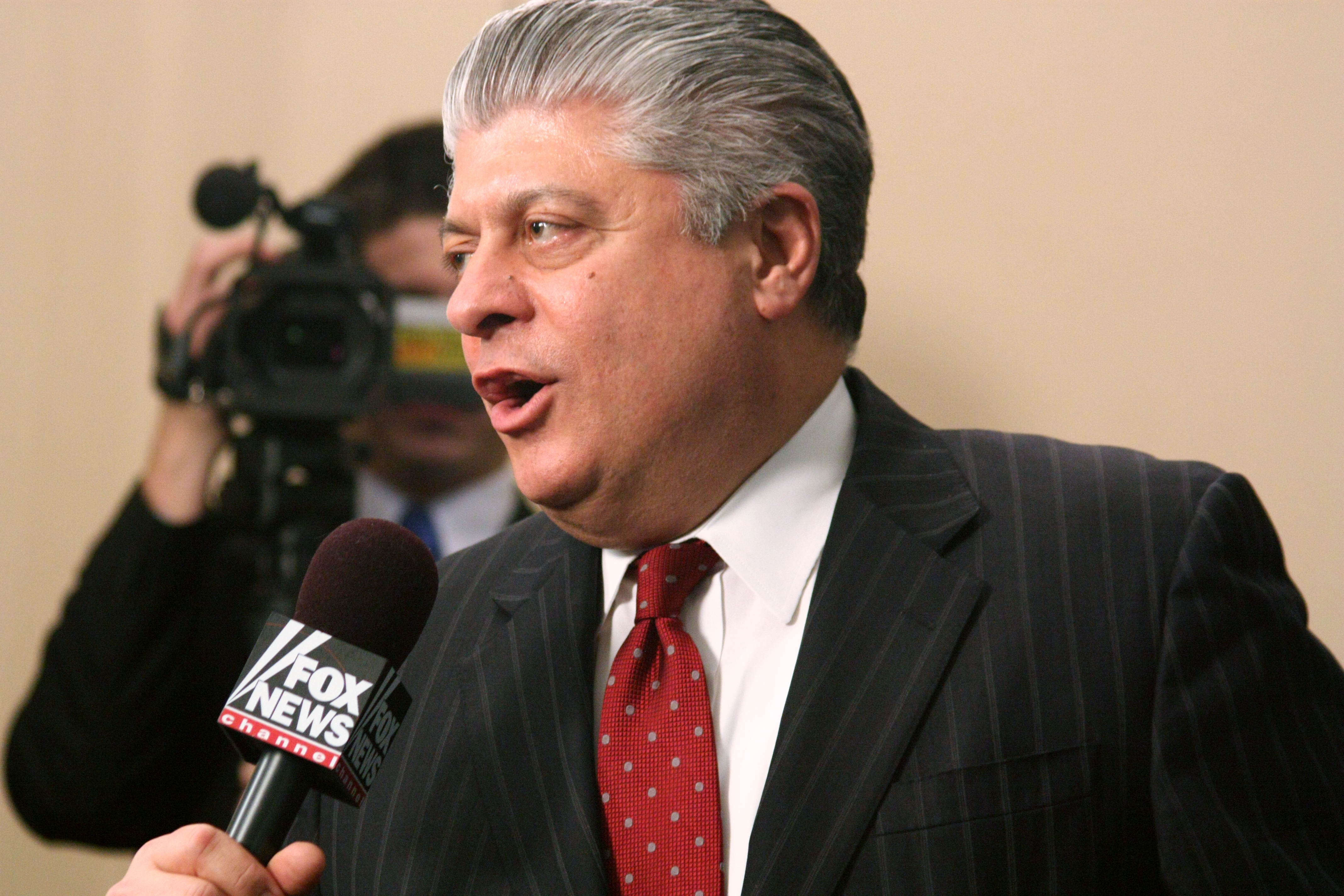 Judge Andrew Napolitano recording an episode of Freedom Watch at CPAC.